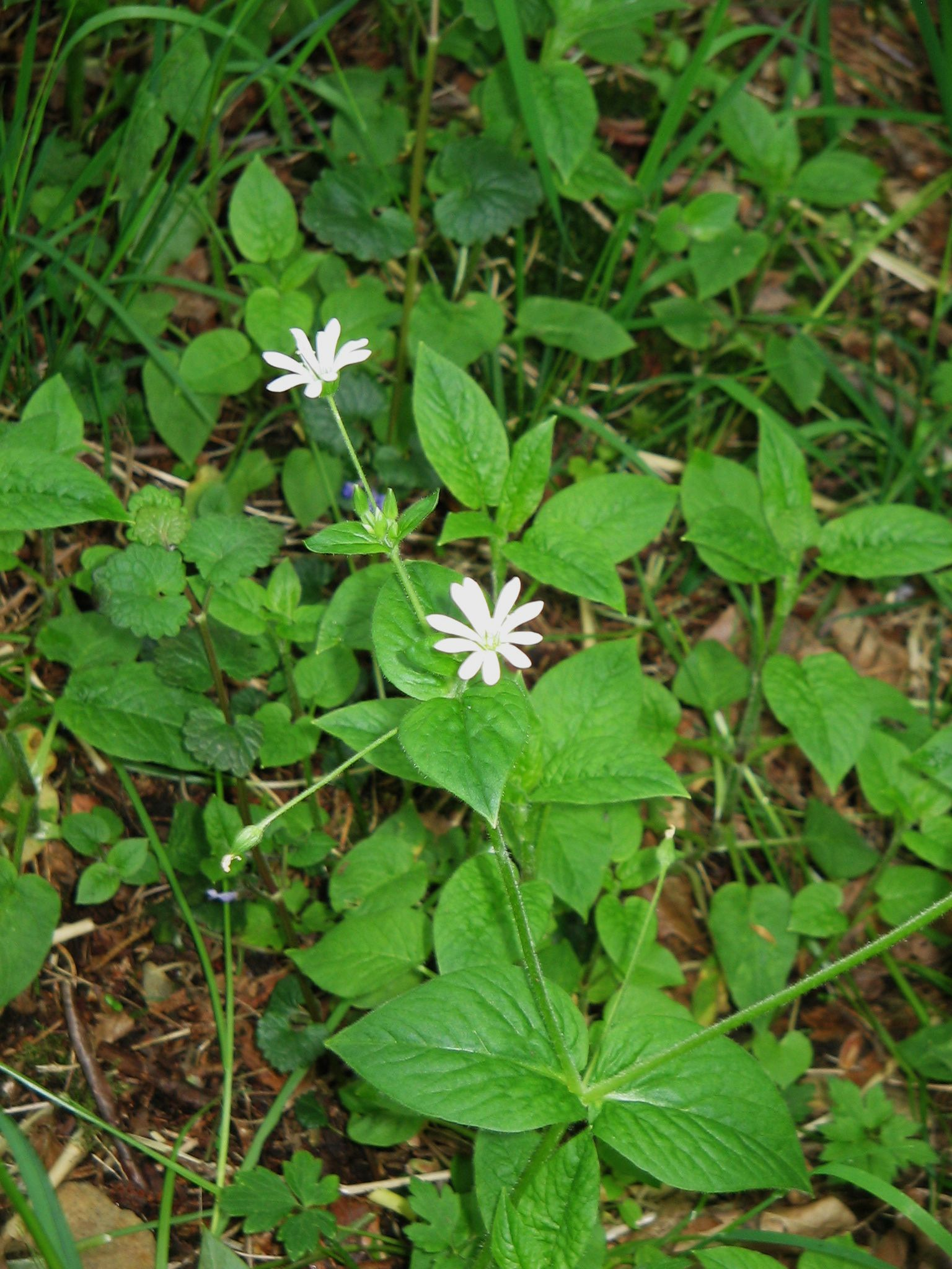 Stellaria nemorum